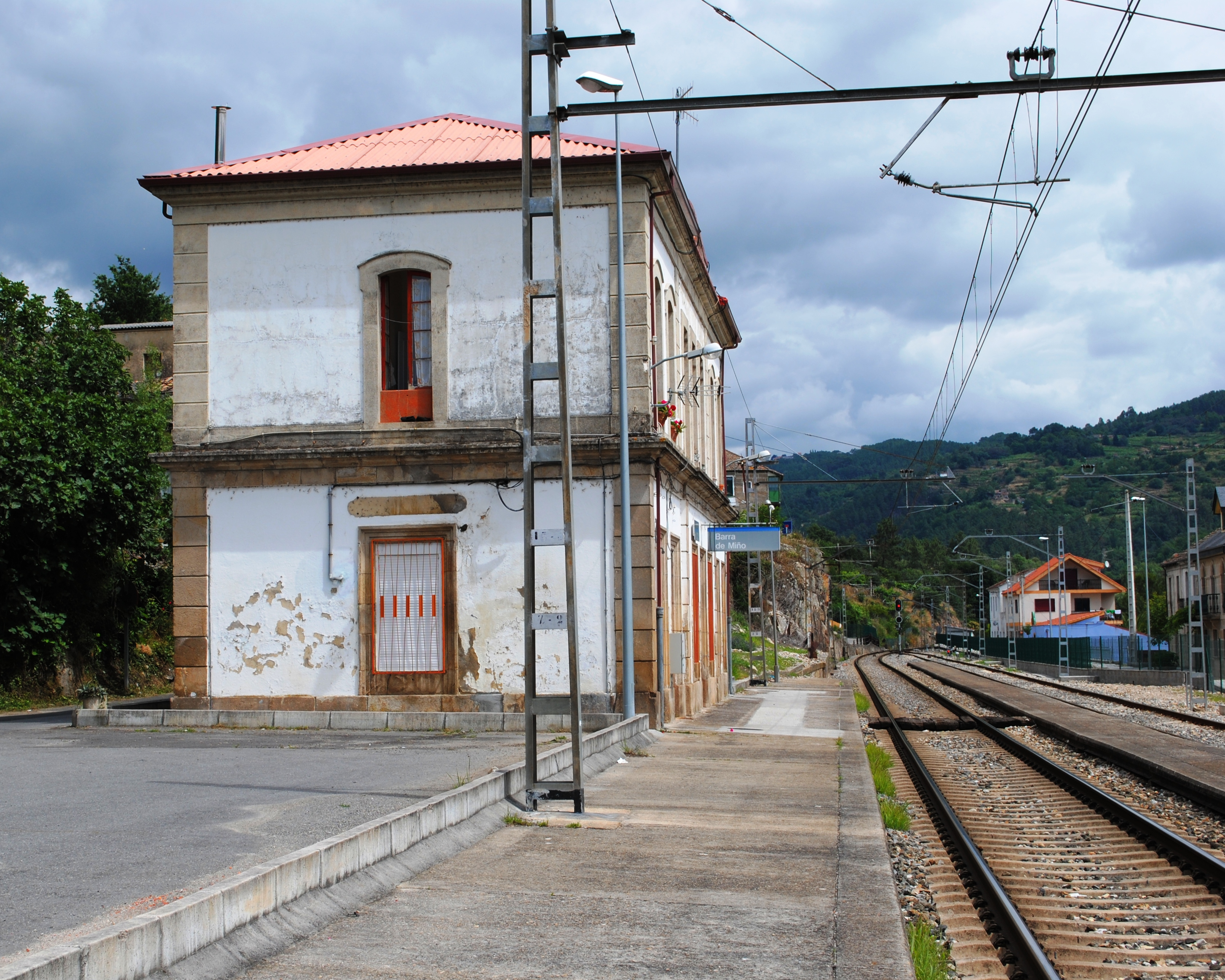 See title.